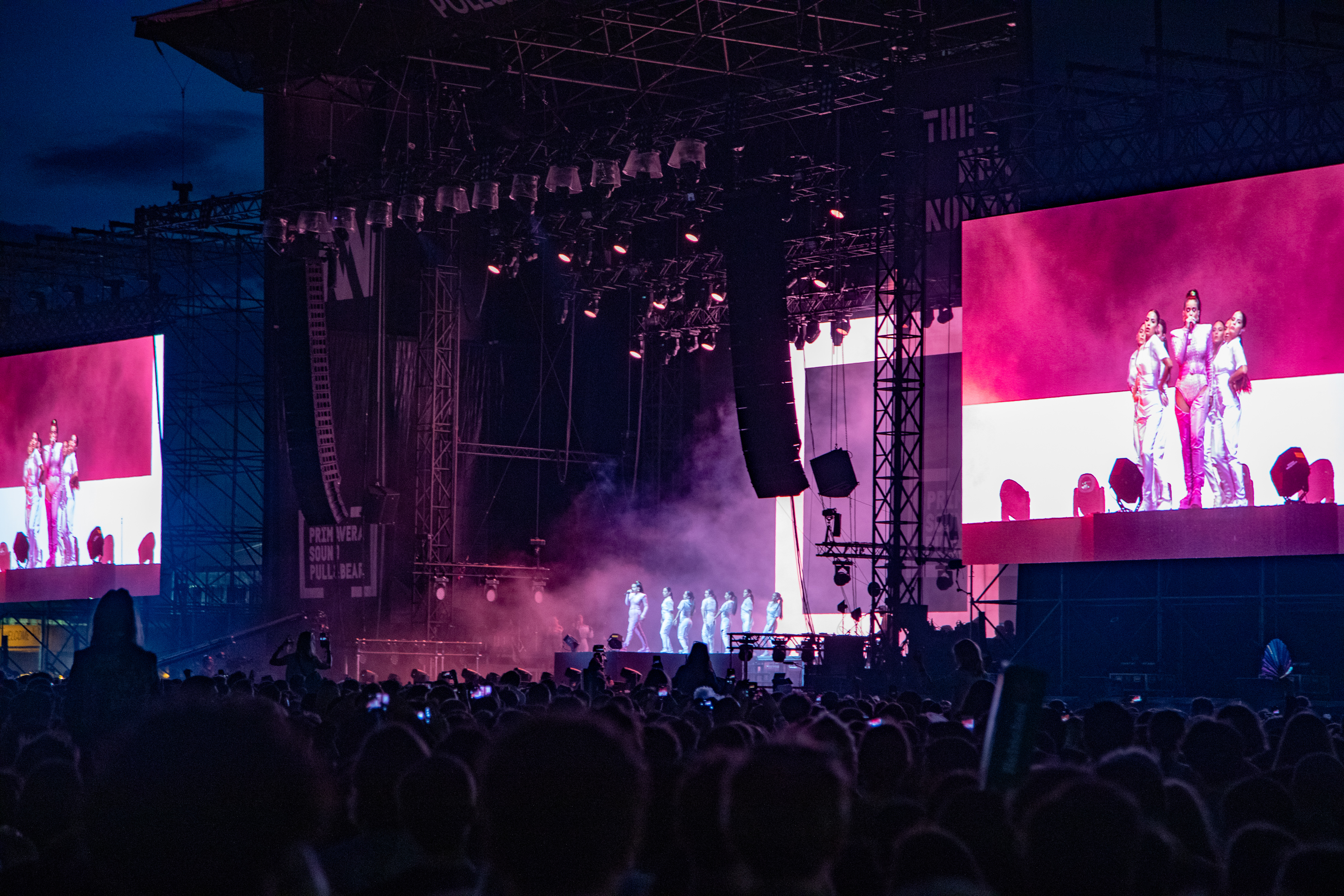 Rosalia performing at Primavera Sound 2019.